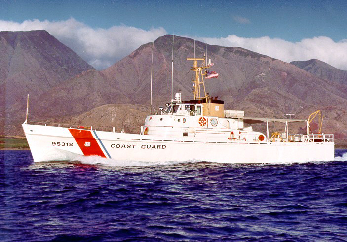 CGC Cape Newagen (WPB-95309), circa 1973.